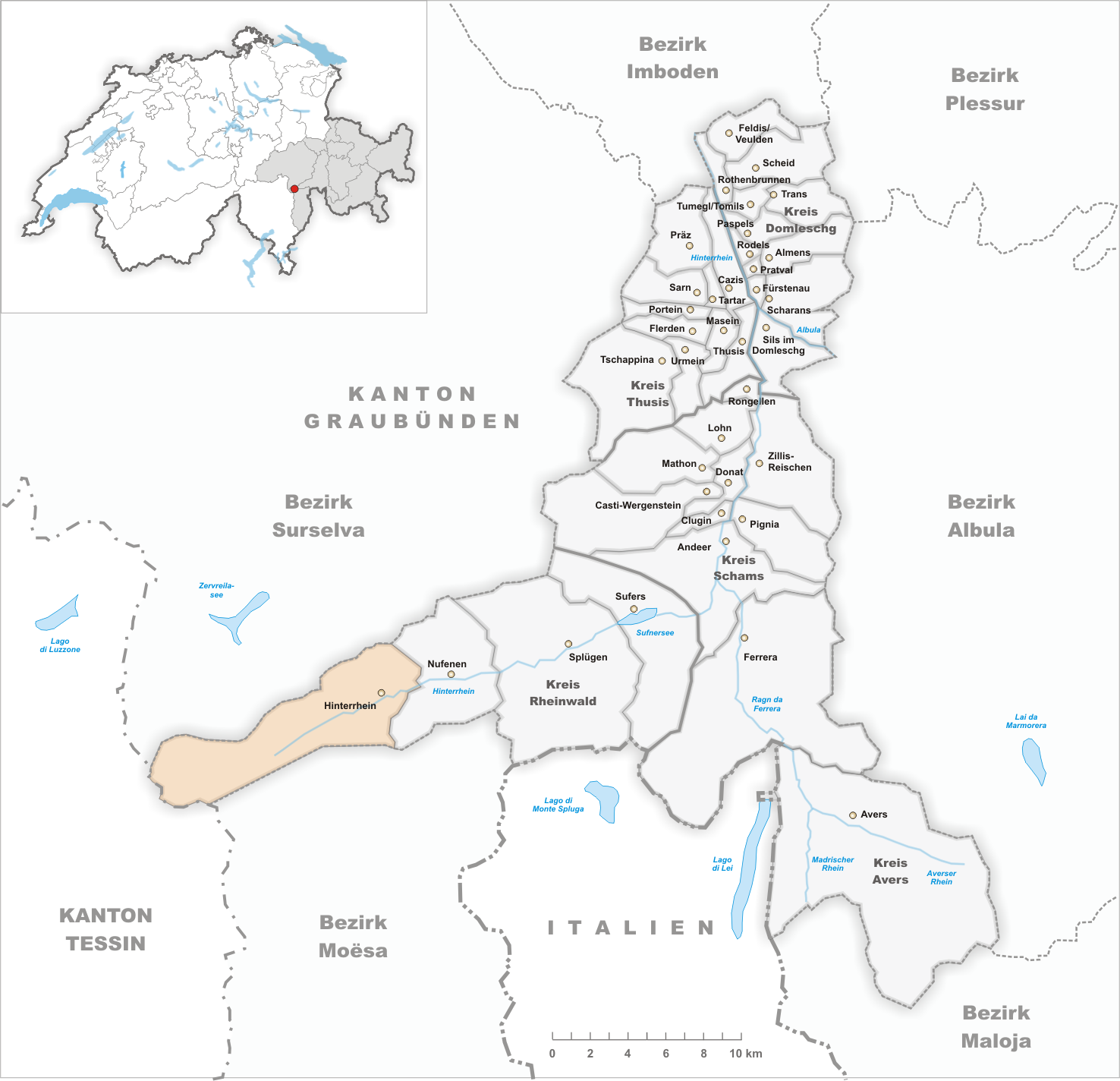 Municipality Hinterrhein